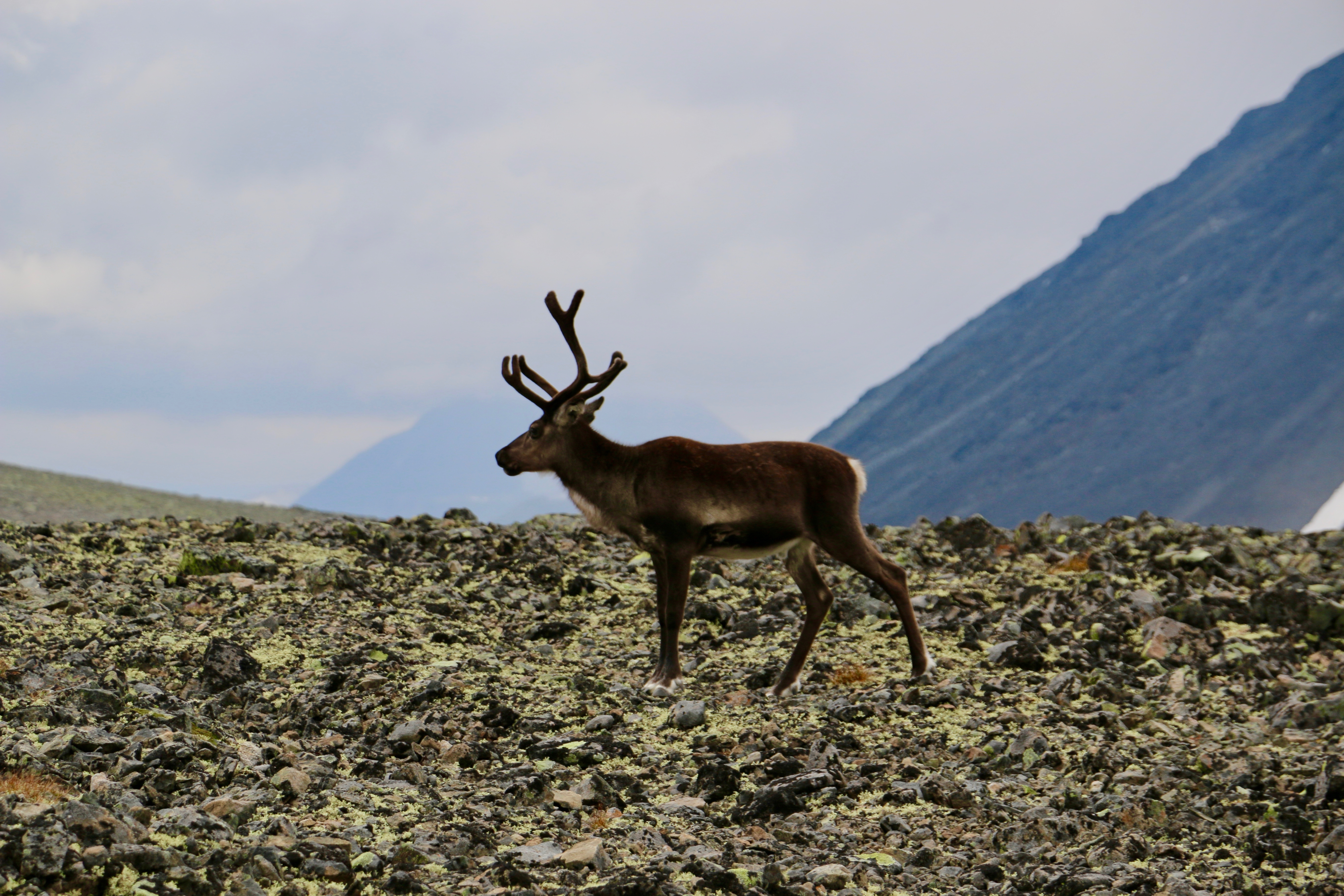 Reindeer on Veslfjellet